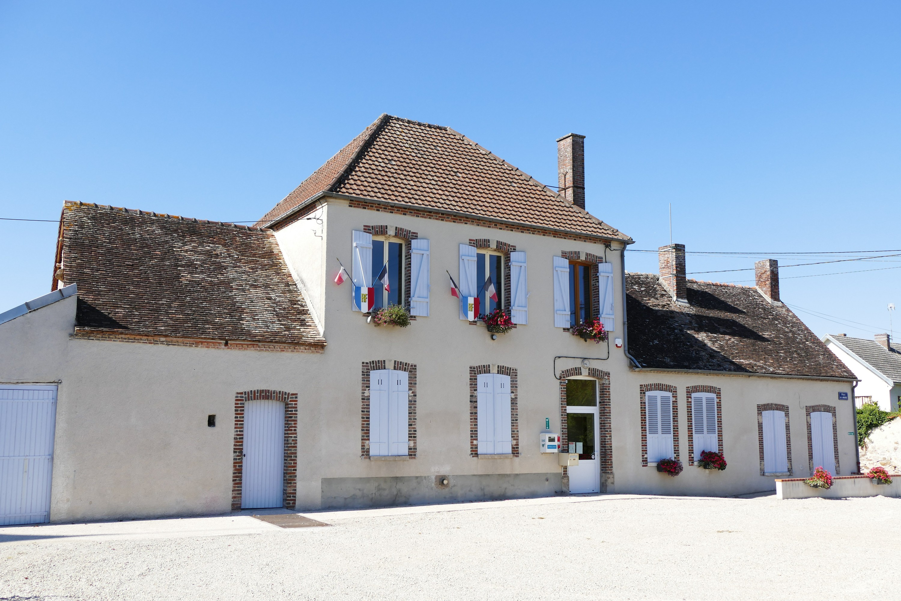 The city hall in Saint-Loup-de-Buffigny (Aube, Champagne-Ardenne, France).